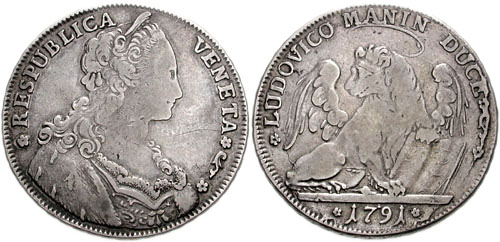 Italia, Venezia. Ludovico Manin. Doge, 1789-1797. AR Tallero (40mm, 28.43 g, 11h). Dated 1791. RESPUBLICA*VENETA* , draped and diademed female (the Republic) bust right LUDOVICO MANIN DUCE* *, winged and nimbate lion of St. Mark seated right, head left, supporting tablets. Davenport 1575; KM 137.